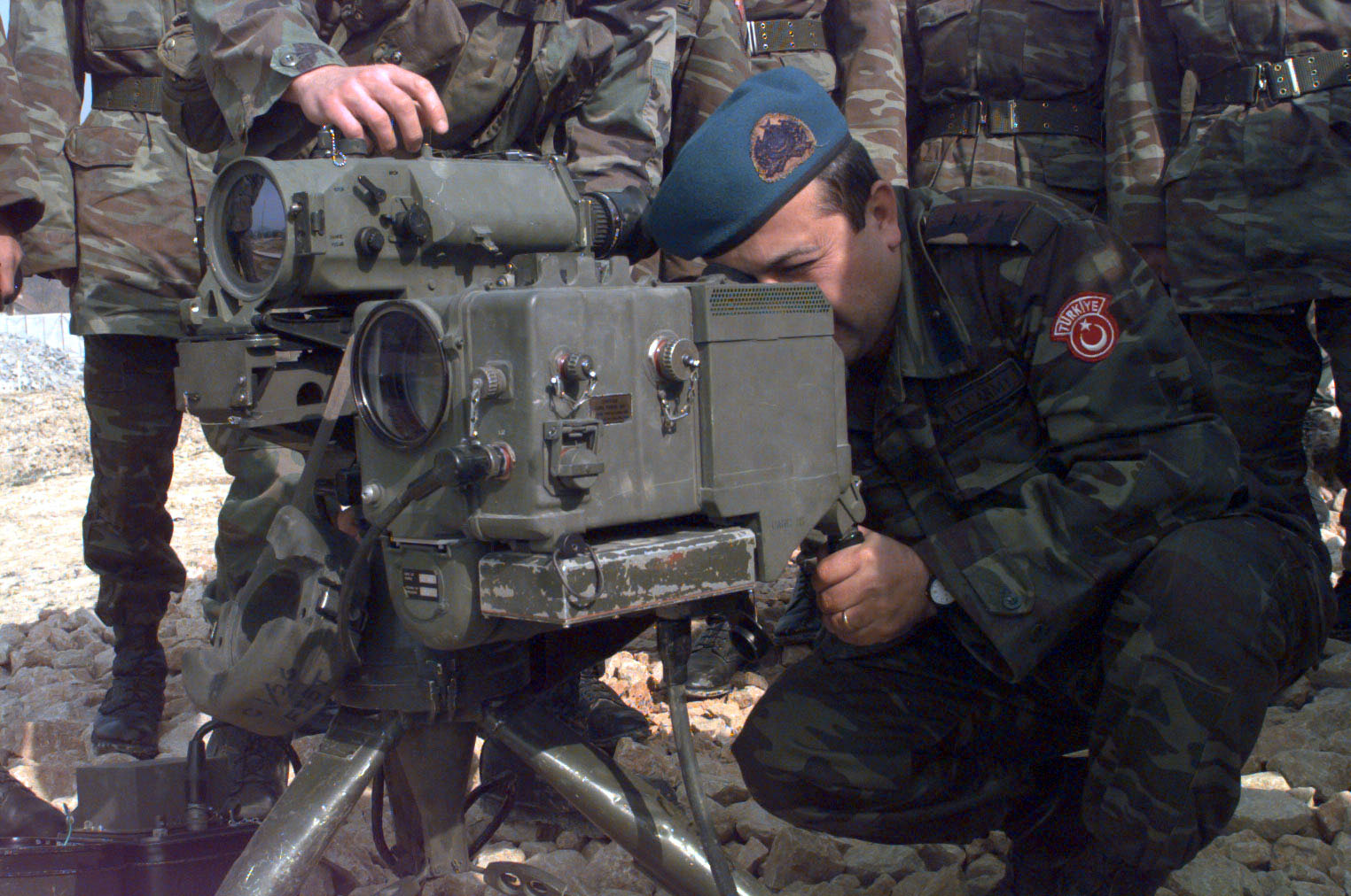 CPT Yakin, of the Turkish Artillery Brigade, out of Zenica, Bosnia, gets a bird's eye view through the Ground Vehicular Laser Locator Designator during their visit with soldiers of the 1/7th Field Artillery Battalion at Camp Dobol, Bosnia.